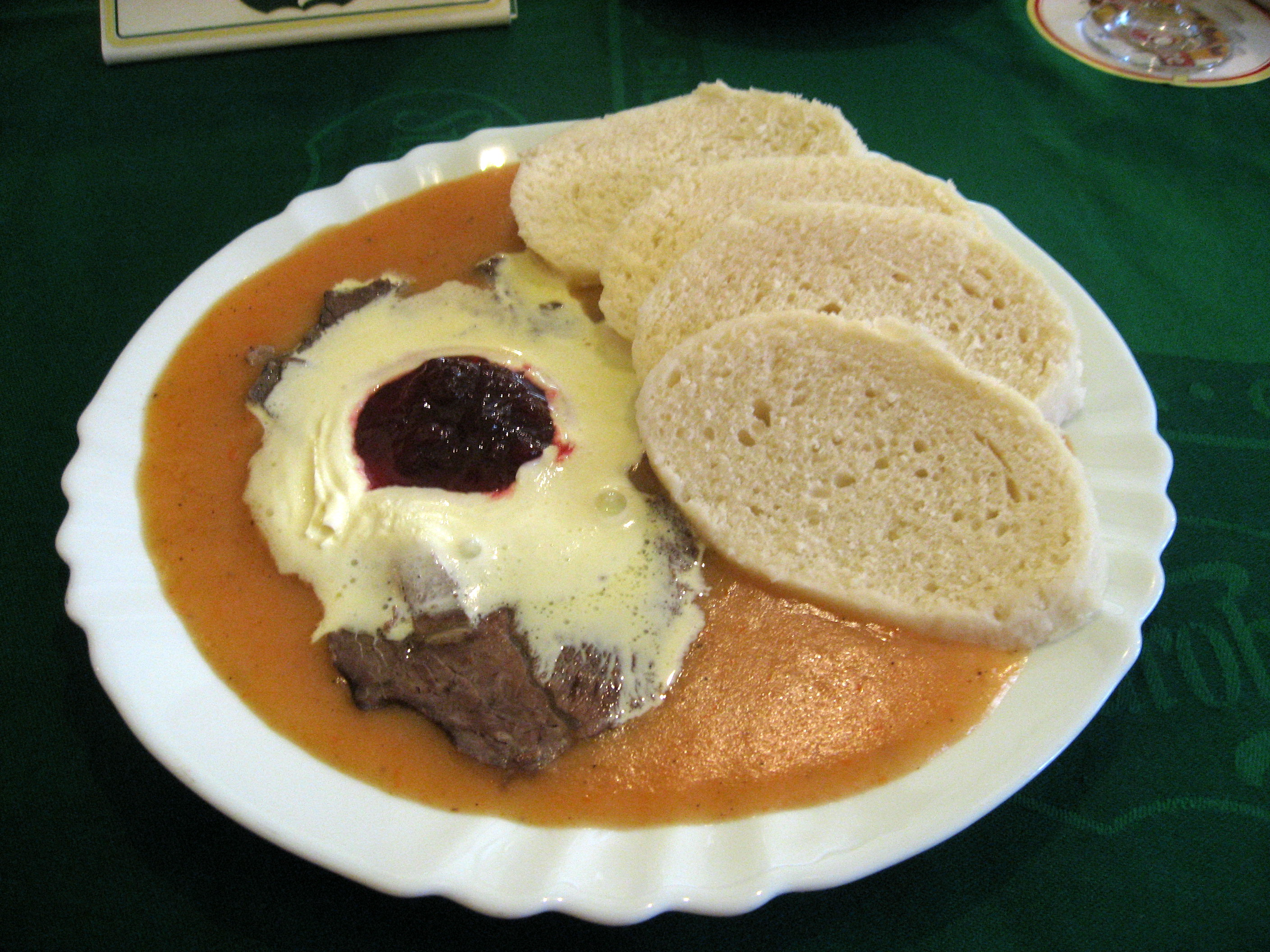 Sirloin with dumplings